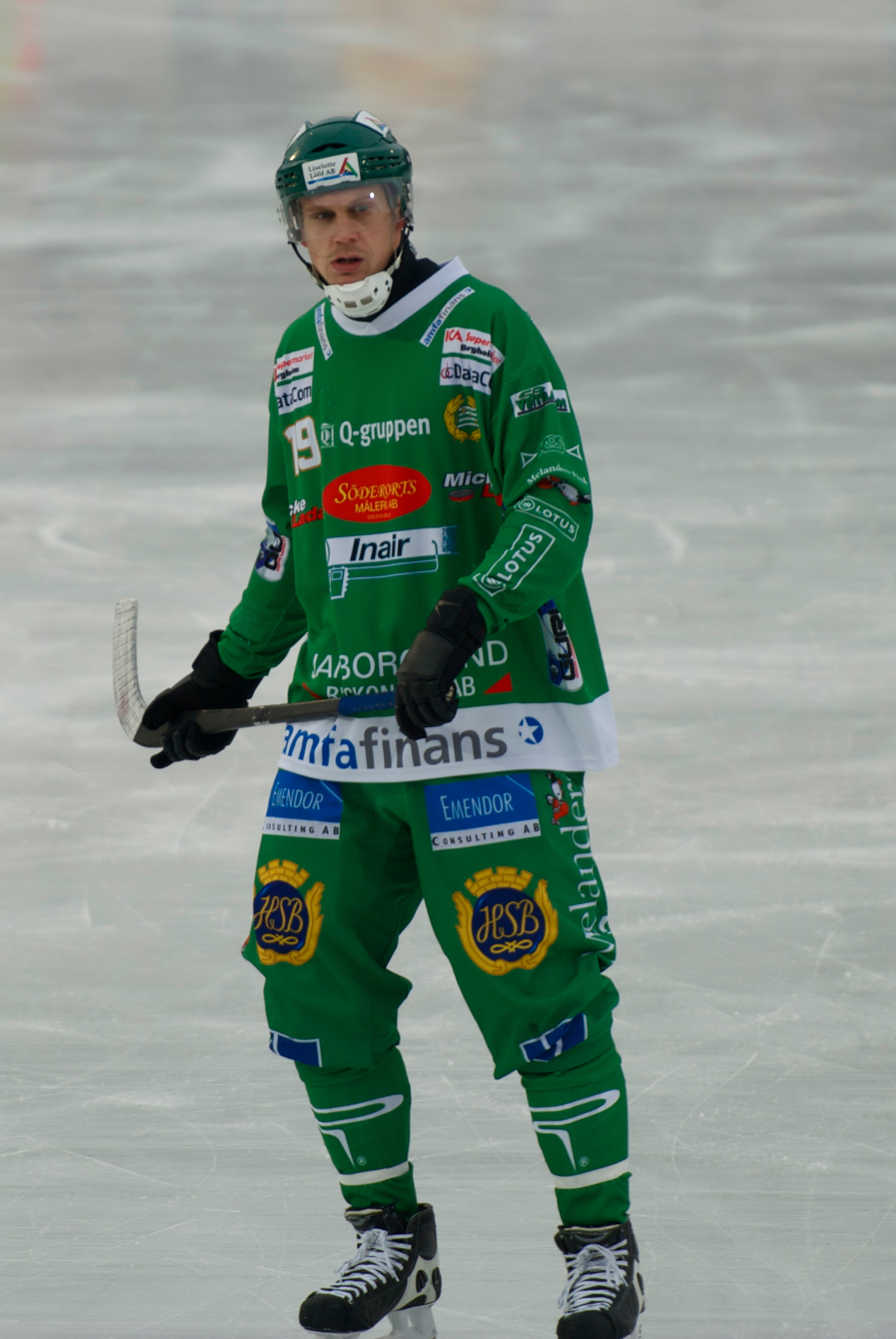 Patrik Nilsson, Hammarby Bandy. Bandy match between Hammarby and GAIS in Elitserien, Zinkendamms IP (Stockholm) 2012-02-11.